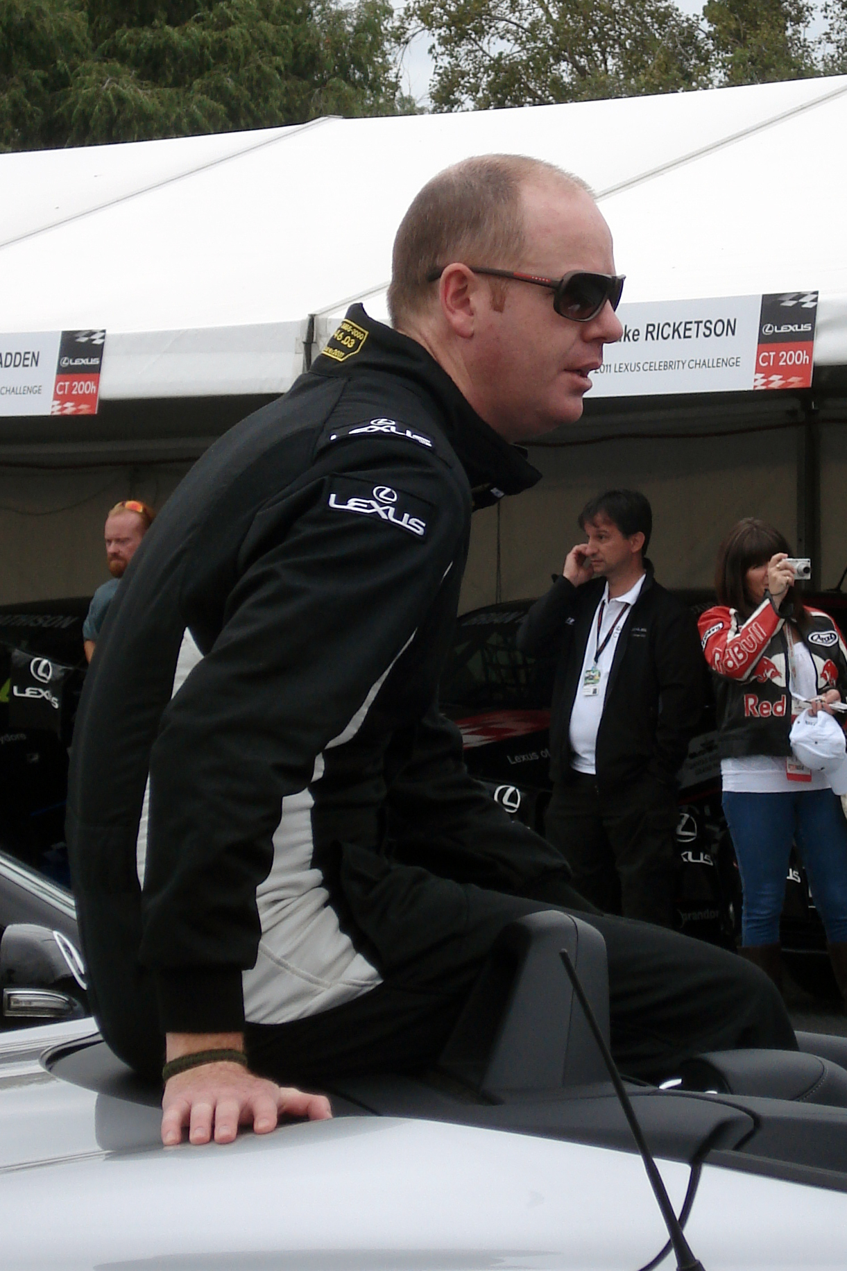 Tom Gleeson at the 2011 Formula One Australian Grand Prix in Melbourne before the Lexus Celebrity Challenge Drivers Parade.